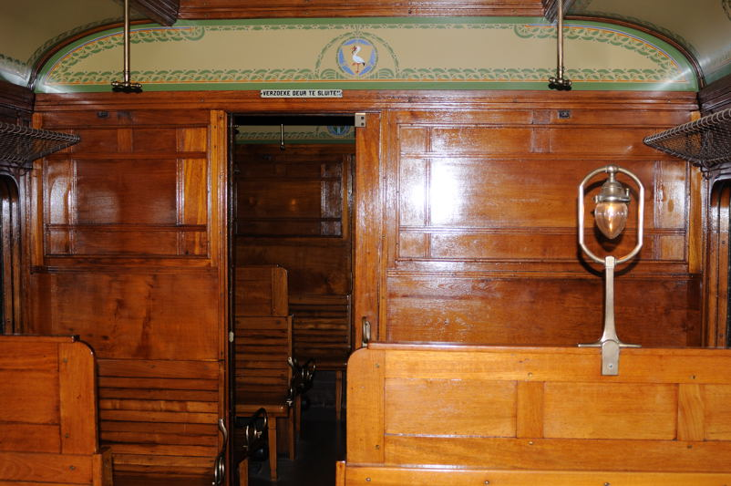 Third class interior of ZHESM railcar mBC 6, preserved by the Dutch railway museum in Utrecht.